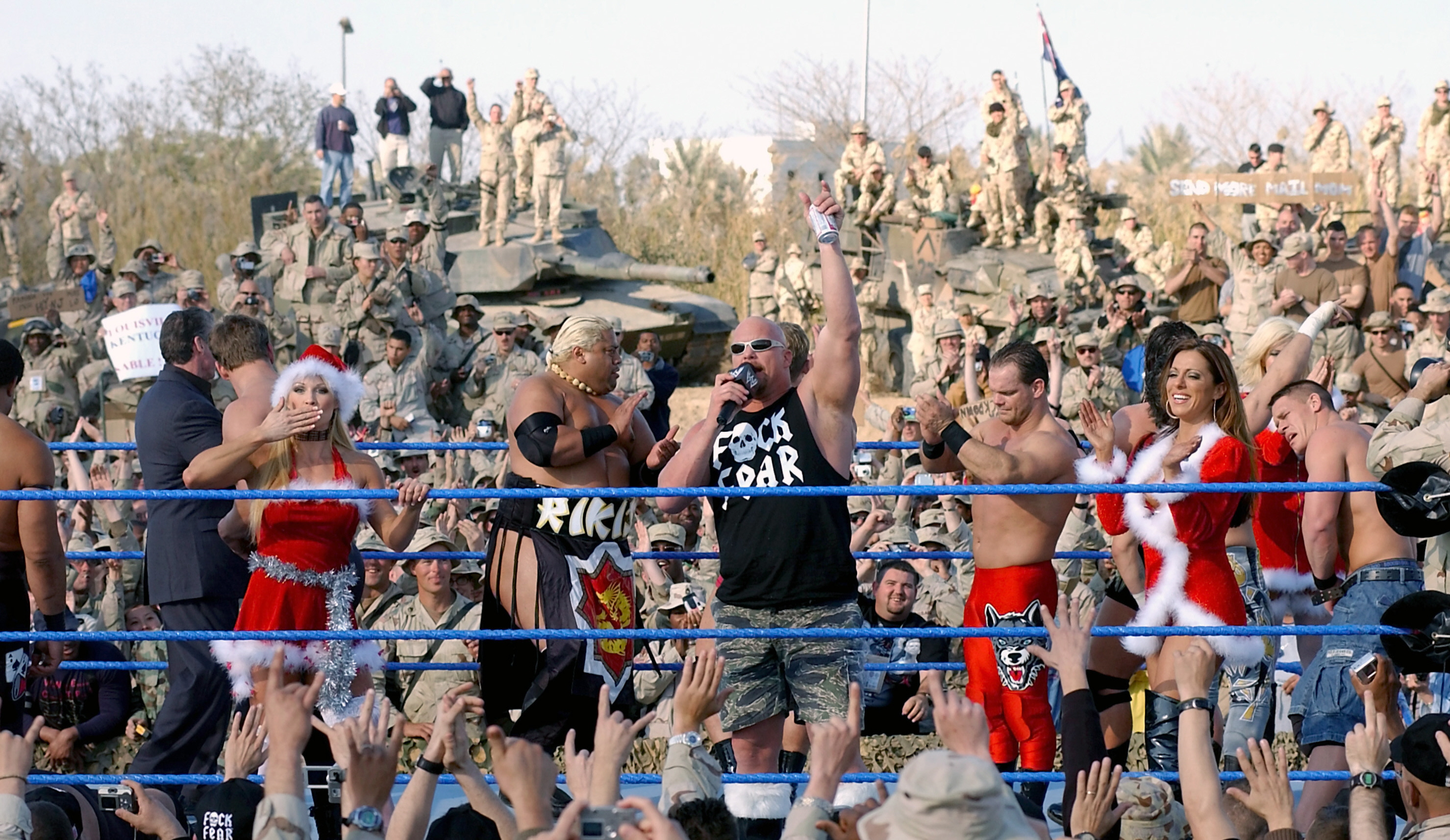 World Wrestling Entertainment (WWE) superstars performing for the Coalition troops at Camp Victory, Baghdad International Airport (BIAP), Iraq (IRQ) during Operation IRAQI FREEDOM.